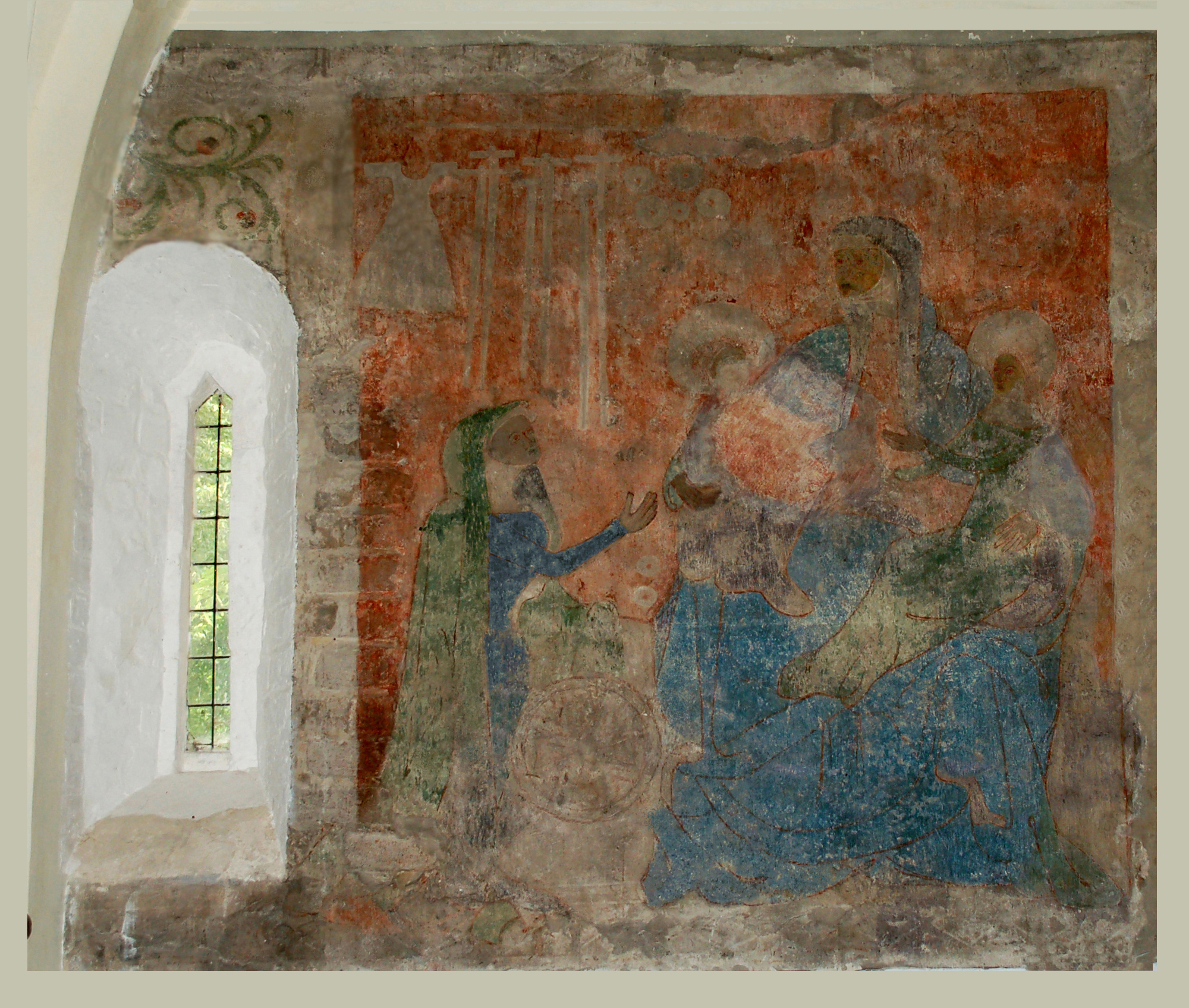 image: Wall Painting.St.-Annen-Church.Berlin-Dahlem, 2007 Image: image produced by Berkan, 2007, picture shows “wall painting.St.-Annen-Church.Berlin-Dahlem, 2007